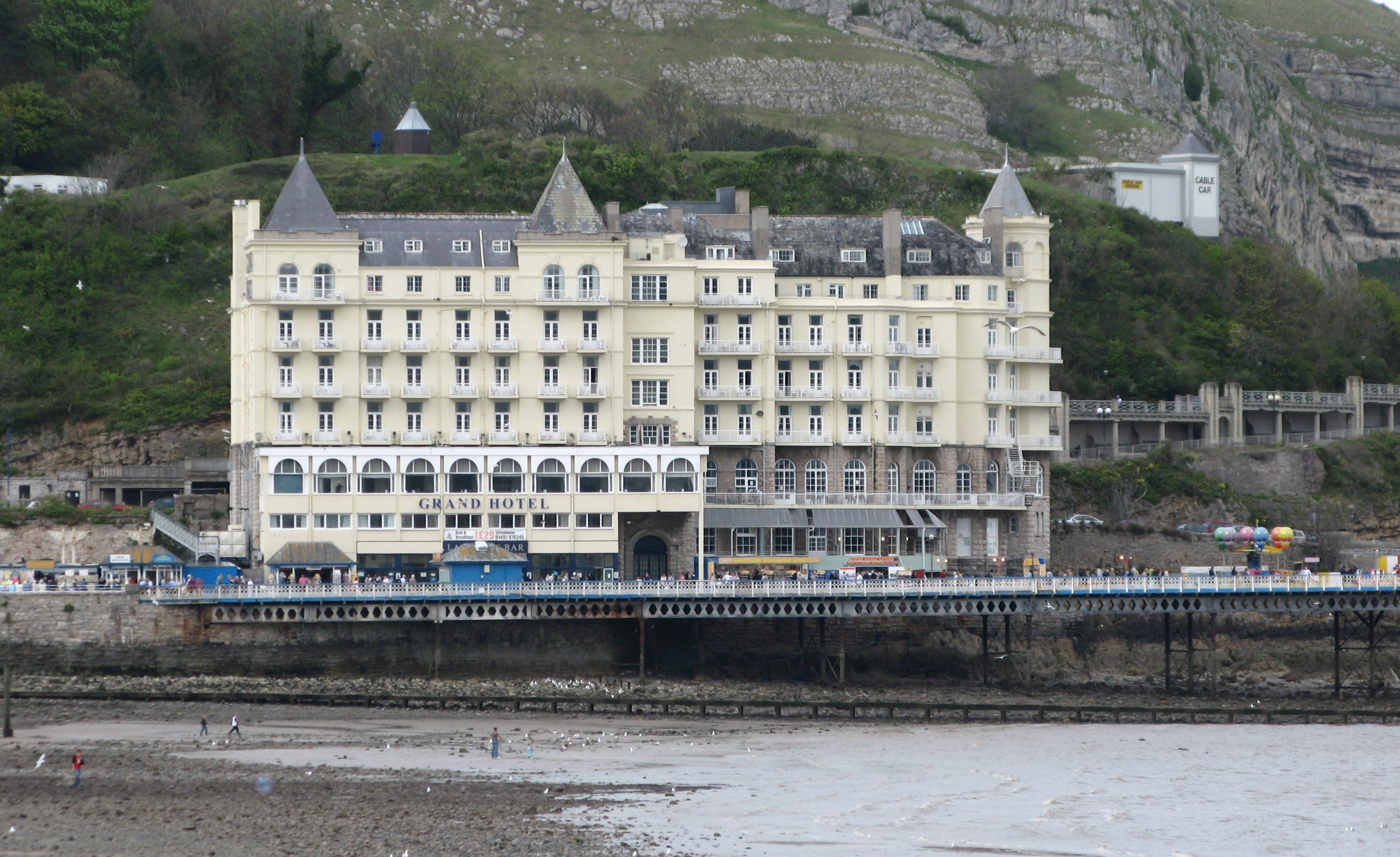 The Grand Hotel Llandudno North Wales. The hotel is located on the north shore the pier can be seen in front of the hotel. 53°19′41.9″N 3°49′44.6″W / 53.328306°N 3.829056°W